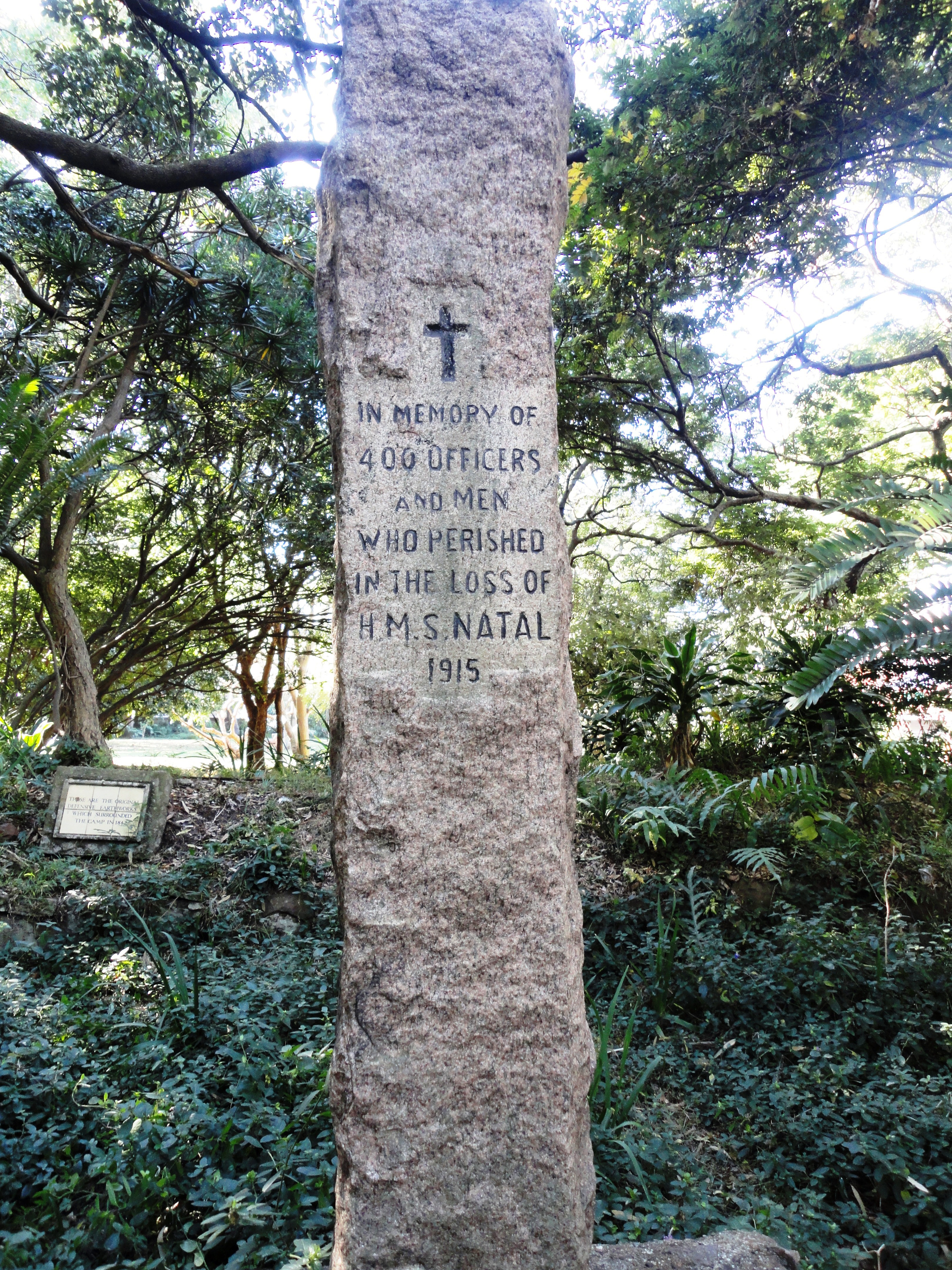 Memorial to 400 men and officers lost with HMS Natal in 1915, Old Fort, Durban